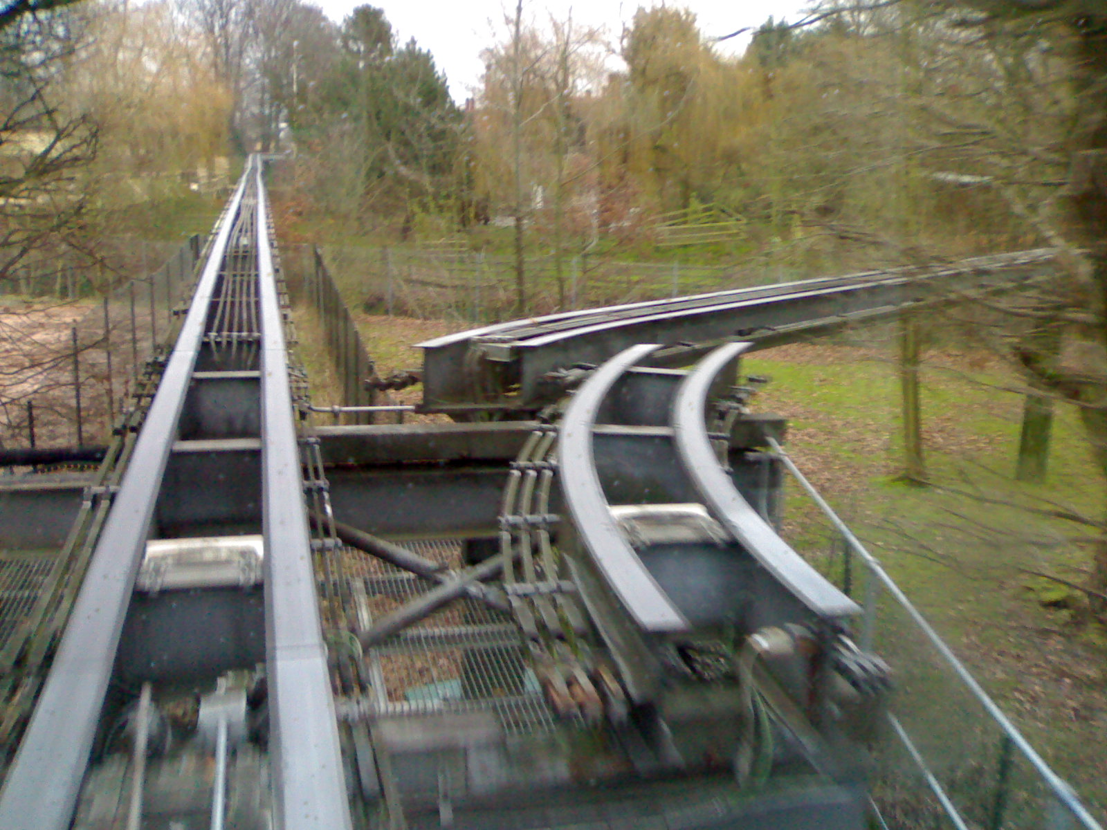 Switching Section on the Chester Zoo Zoofari Monorail ride.